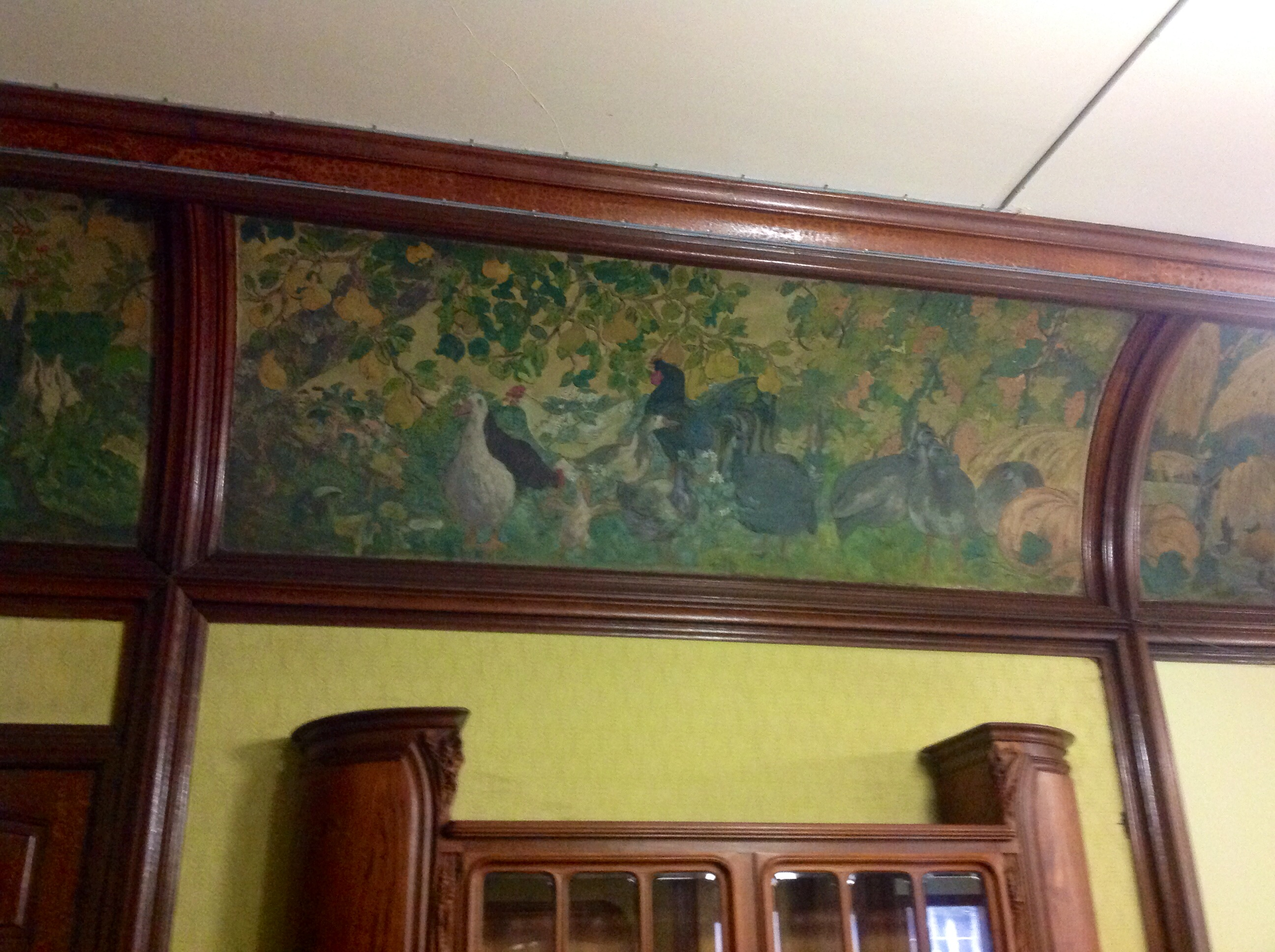 Frieze of edible animals by Francis Jourdain in the dining room of the Villa Majorelle